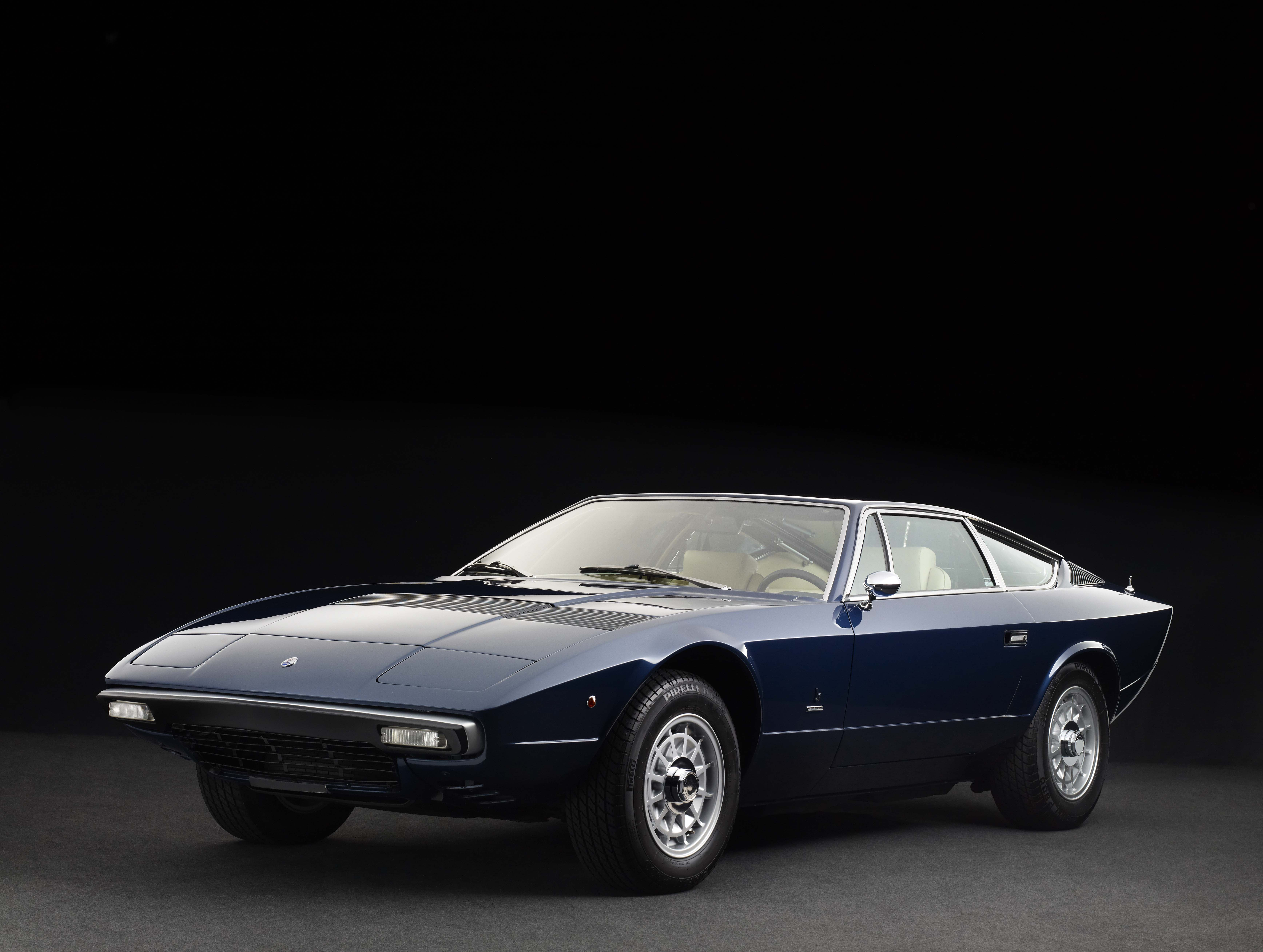 Maserati Khamsin 1975 (AM120160, front)